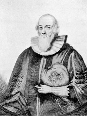 Source: History of the County of Dublin, Part II, by F. Elrington Ball (1903)